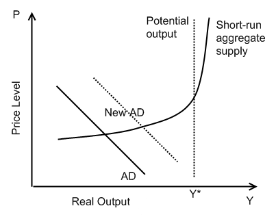 Diagram illustrating the "aggregate supply" and "aggregate demand" curve.